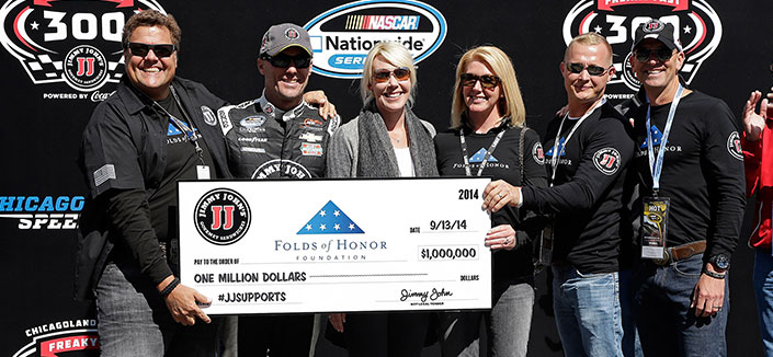 Jimmy John's owner Jimmy John Liautaud, wife Leslie Liautaud, and NASCAR driver Kevin Harvick present a one million dollar check from Jimmy John's to Folds of Honor, The charity, represented here by Major Dan Rooney, benefits families of America's fallen & disabled soldiers. The picture was taken at the Jimmy John's Freaky Fast 300 at Chicagoland Speedway.